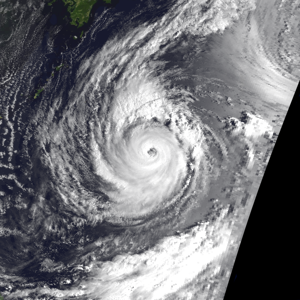 Orchid shortly after peak intensity on September 25th.